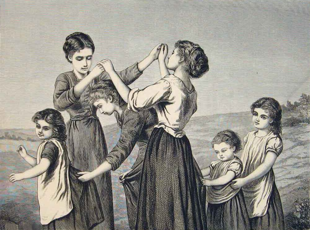 "Oranges And Lemons", Nicholl Bouvier Games 1874, "The Pictorial World", Agnes Rose Bouvier (1842 - 1892)